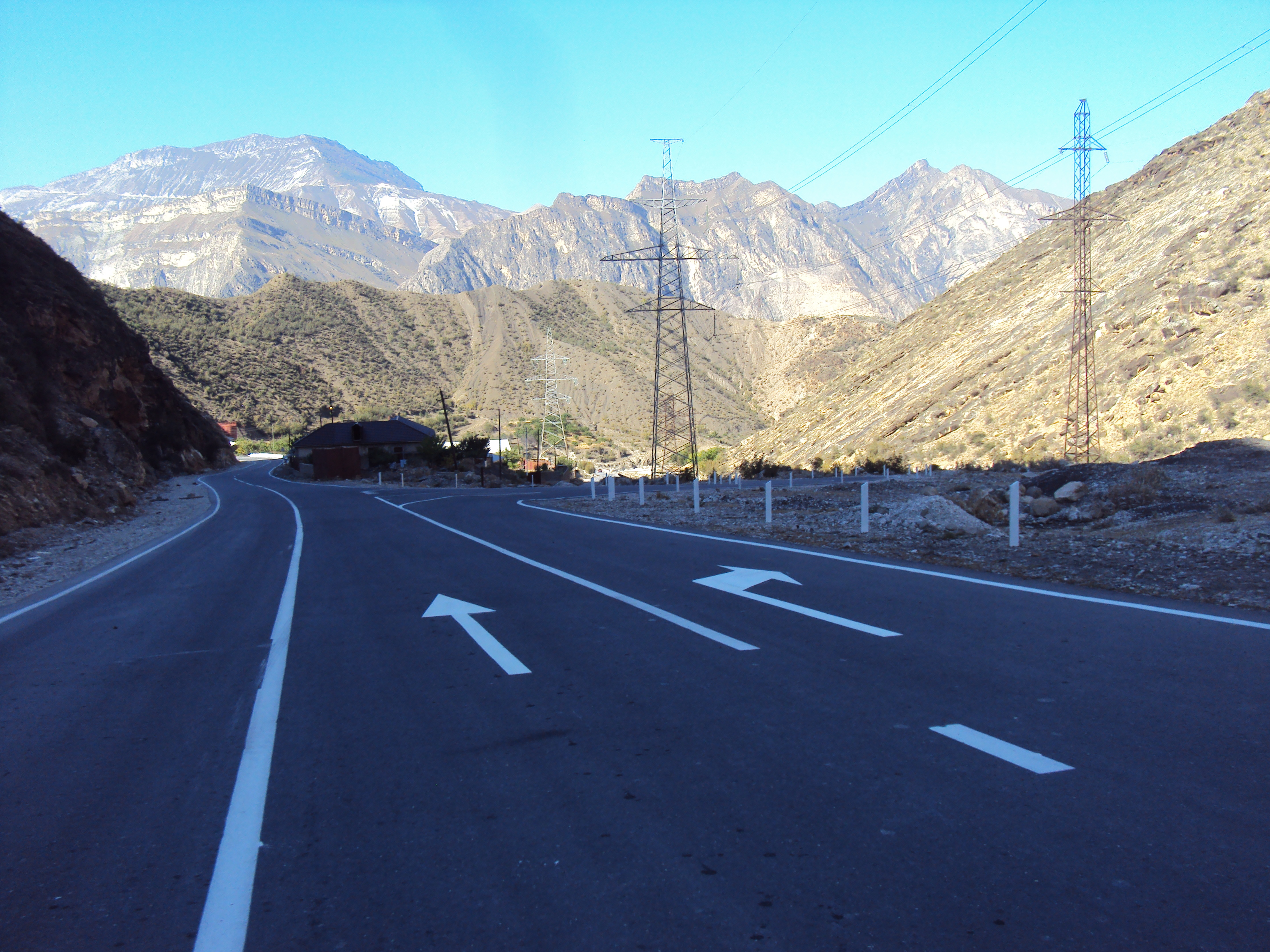 Gimry-Chirkata road in Dagestan